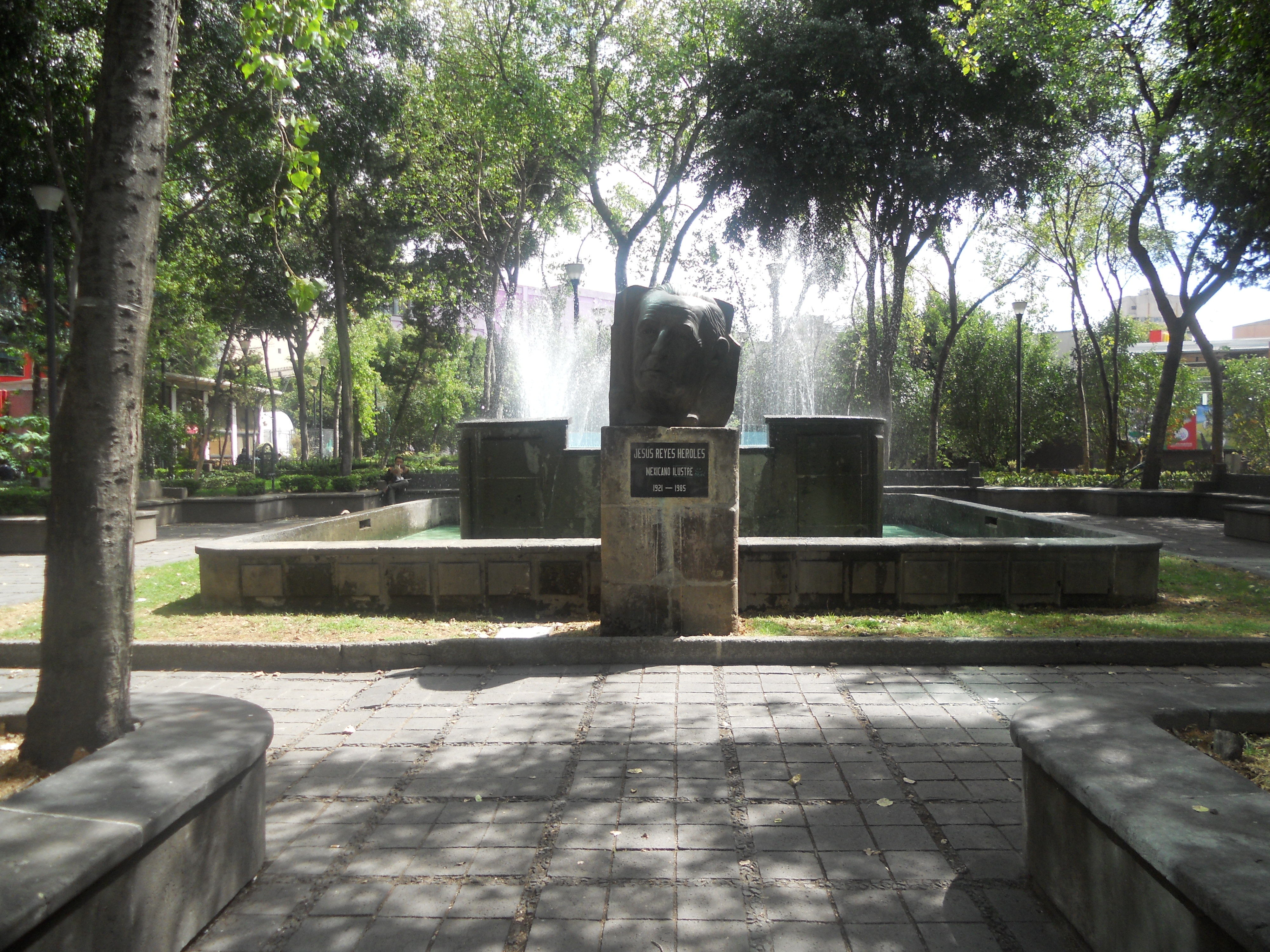 This bust represents Jesús Reyes Heroles and is located in a resting area in Paseo de la Reforma, in Mexico City.